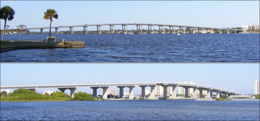 The Granada Bridge (top photo) is a bridge completed 1983 carries State Highway 40 and Granada Blvd. over the Halifax River, in Ormond Beach, Volusia County, Florida. Port Orange Causeway (bottom photo) is a bridge completed in 1990 that carries Florida State Highway A1A over the Halifax River, Port Orange, Volusia County, Florida. In May 1987, the U.S. federal government agreed to provide $8.16 million of the estimated $12 million cost of building a Port Orange, Florida bridge planned to be similar to the Granada Bridge. See Truesdell, Al (1987-05-29). "Bridge Money Elates Port Orange $8 Million from U.S. Fund will Help Replace Dunlawton Causeway". Orlando Sentinel: 1. Retrieved on 12 December 2008. "A spokesman for U.S. Congressman Bill Chappell, D-Ormond Beach, said the federal government will pay $8.16 million of the estimated $12 million cost of building a 65-foot-high bridge that will be similar to the Granada Bridge in Ormond Beach."